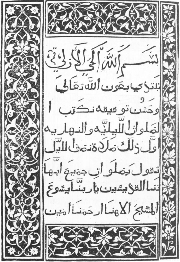 This is a page from Kitab Salat al-Sawai (The Book of Hours) first printed in Venice (though the imprint says Fano), Italy on September 12th 1514. It is considered the first printed book using Arabic movable type. The picture was taken from a book found in the British Library. The original book has some text in red.